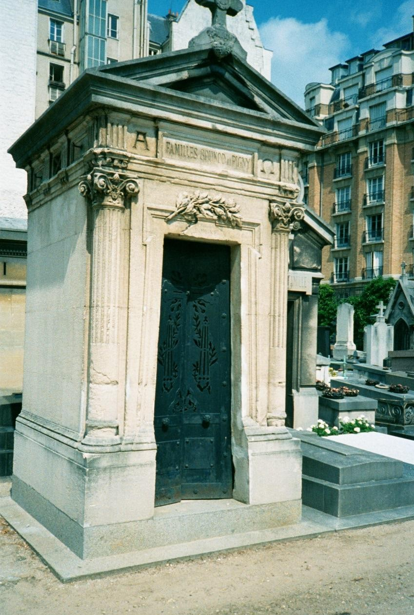 Gounod burial site (about 2004); personal photo; no rights claimed